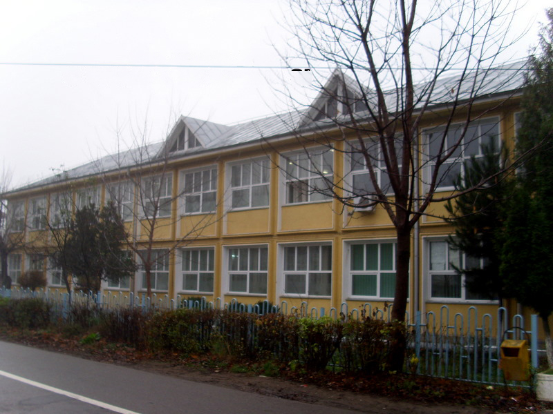 Colegiul Letea(corp A)-imagine